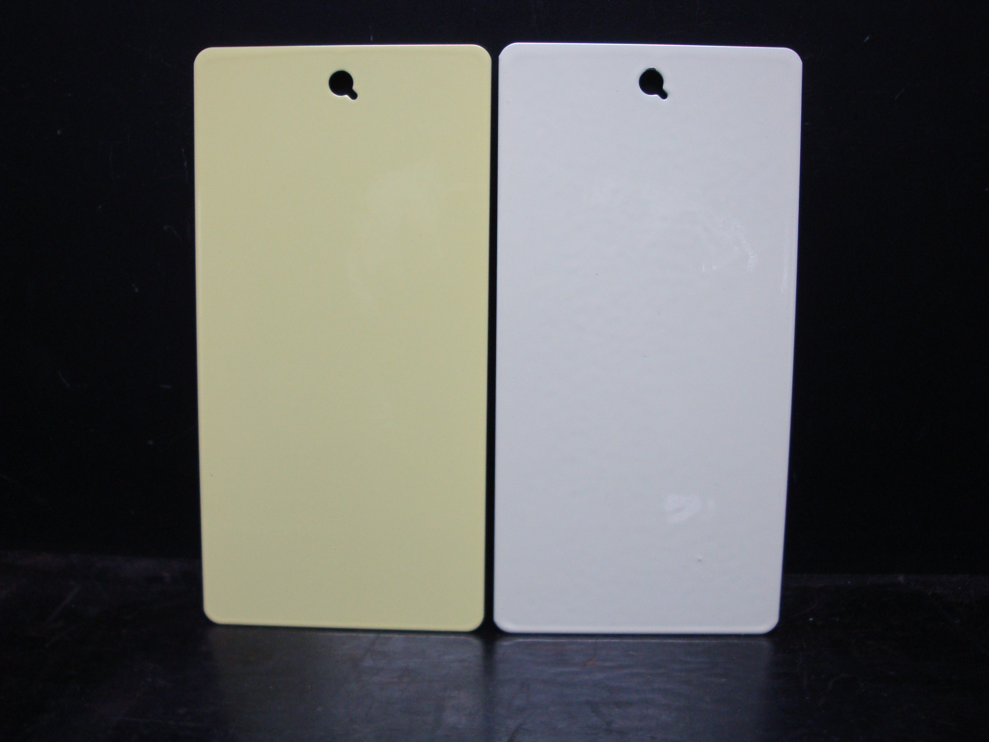 Comparison of white reductions of C.I. Pigment Yellow 184 (left) and C.I. Pigment Yellow 53 (right)